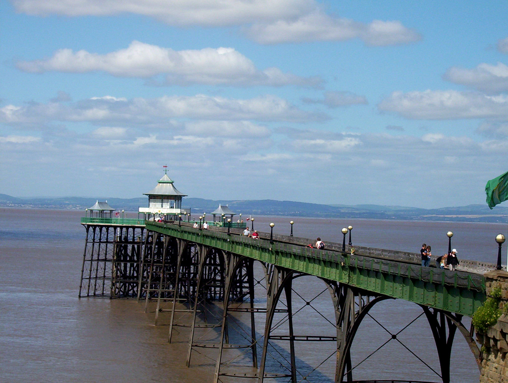 Grade I listed pier at Clevedon, Somerset, England